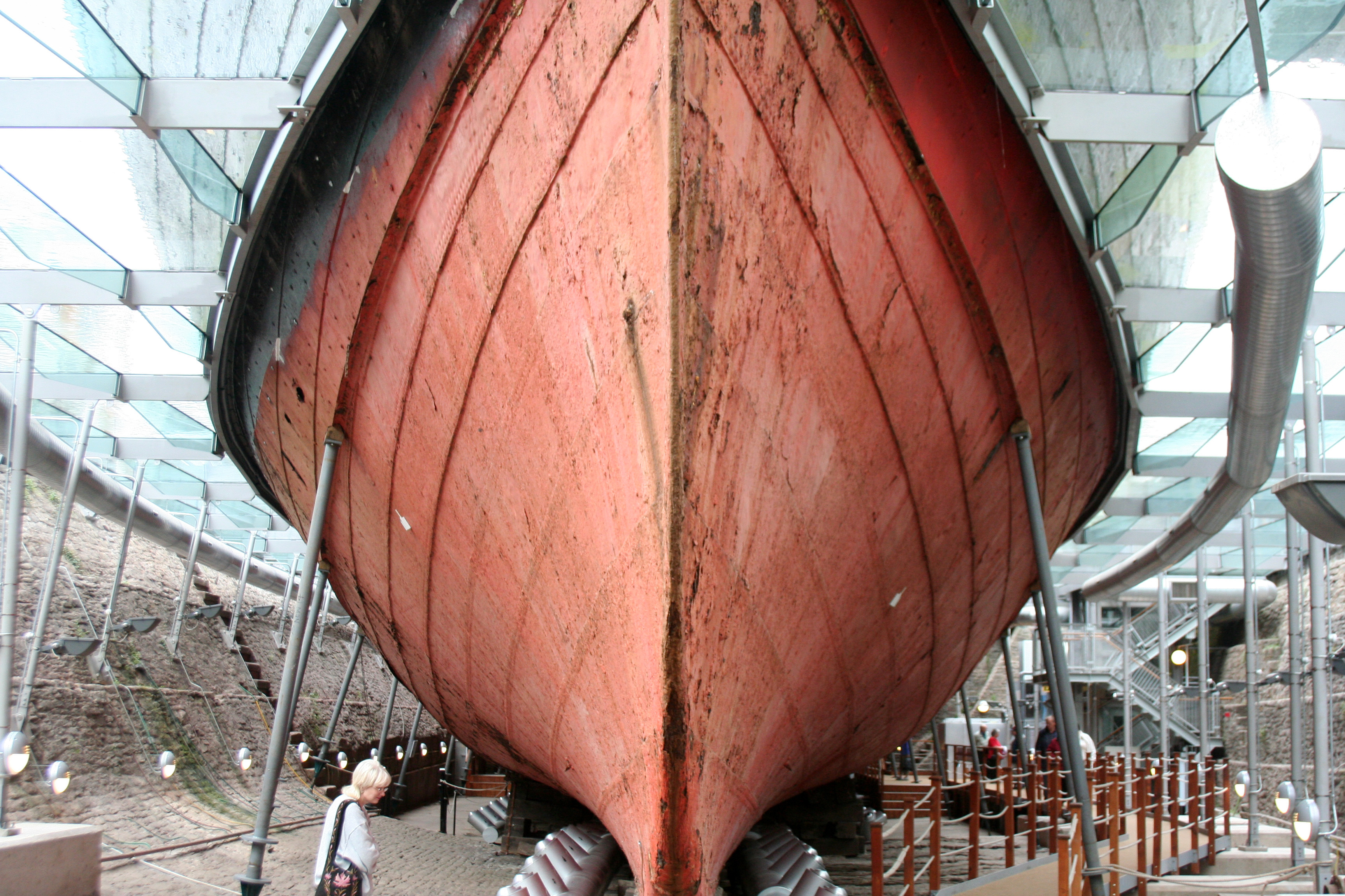 Steamship SS Great Britain, hull